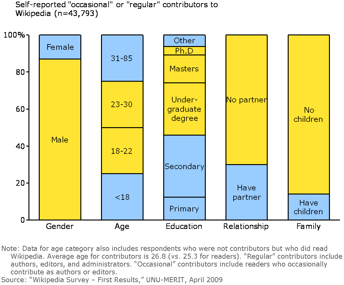 This plan was created for the Wikimedia Foundation's strategic planning process and will be used during that process.